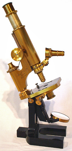 antique microscope by Carl Zeiss Jena, No. 4415 made in 1879